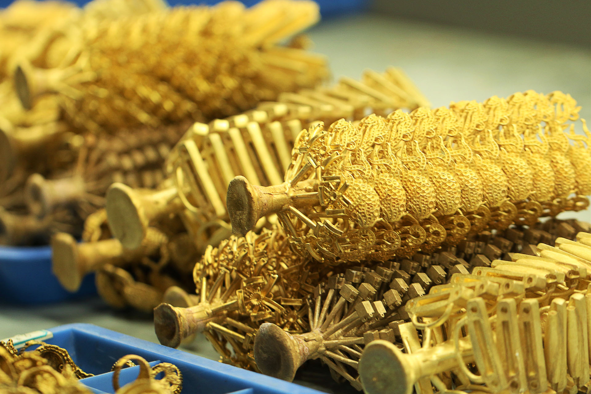 brass model after casting